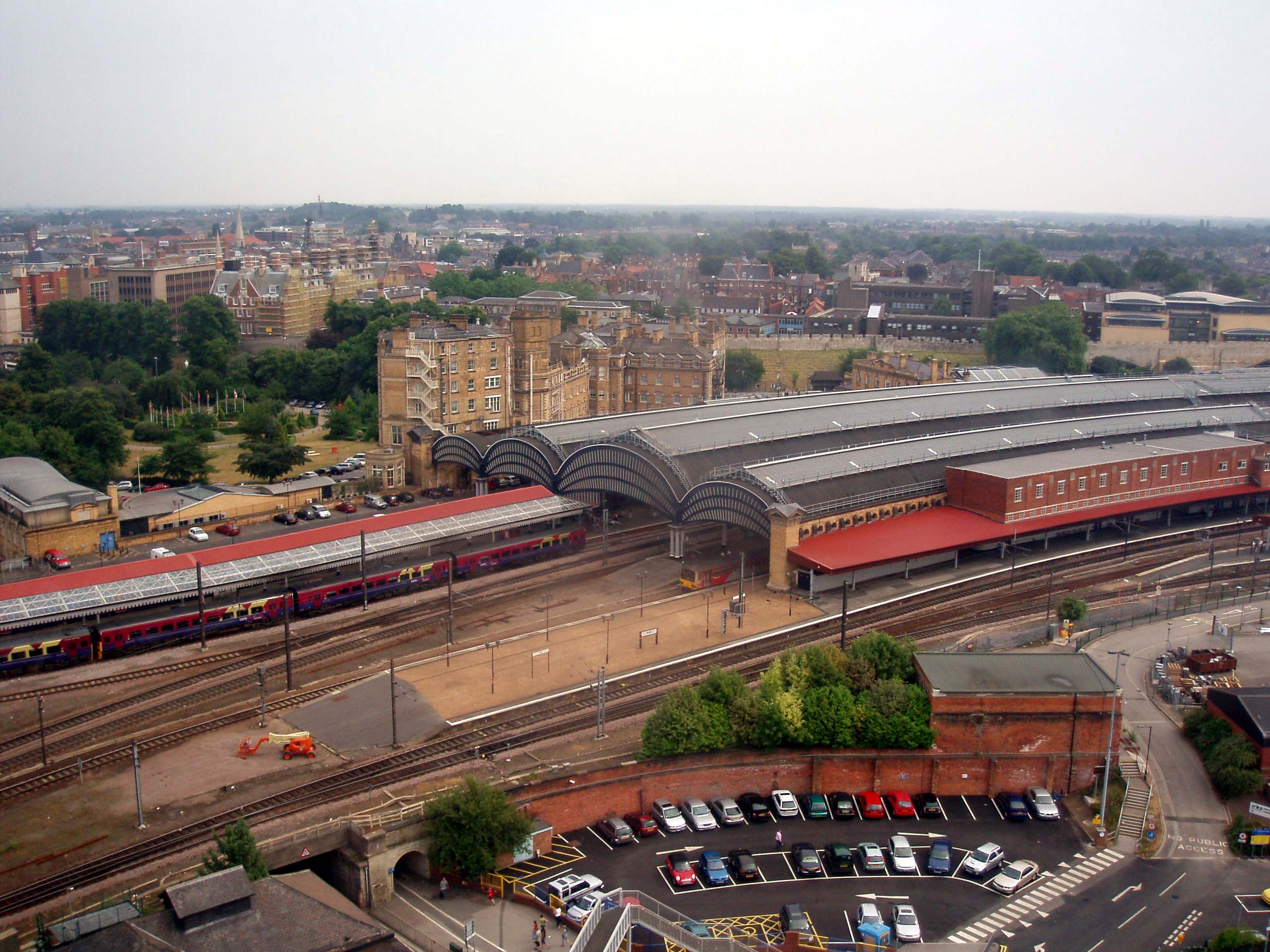 Taken by Mammal4 and uploaded 28-07-06